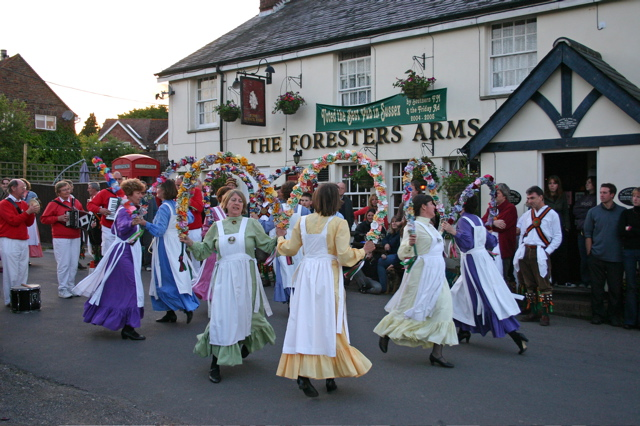 Foresters Arms, Fairwarp. Morris Dancing in the street outside the pub